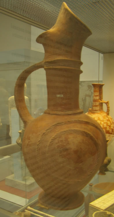 base ring vessel, Cyprus, Late Bronze age (British Museum)